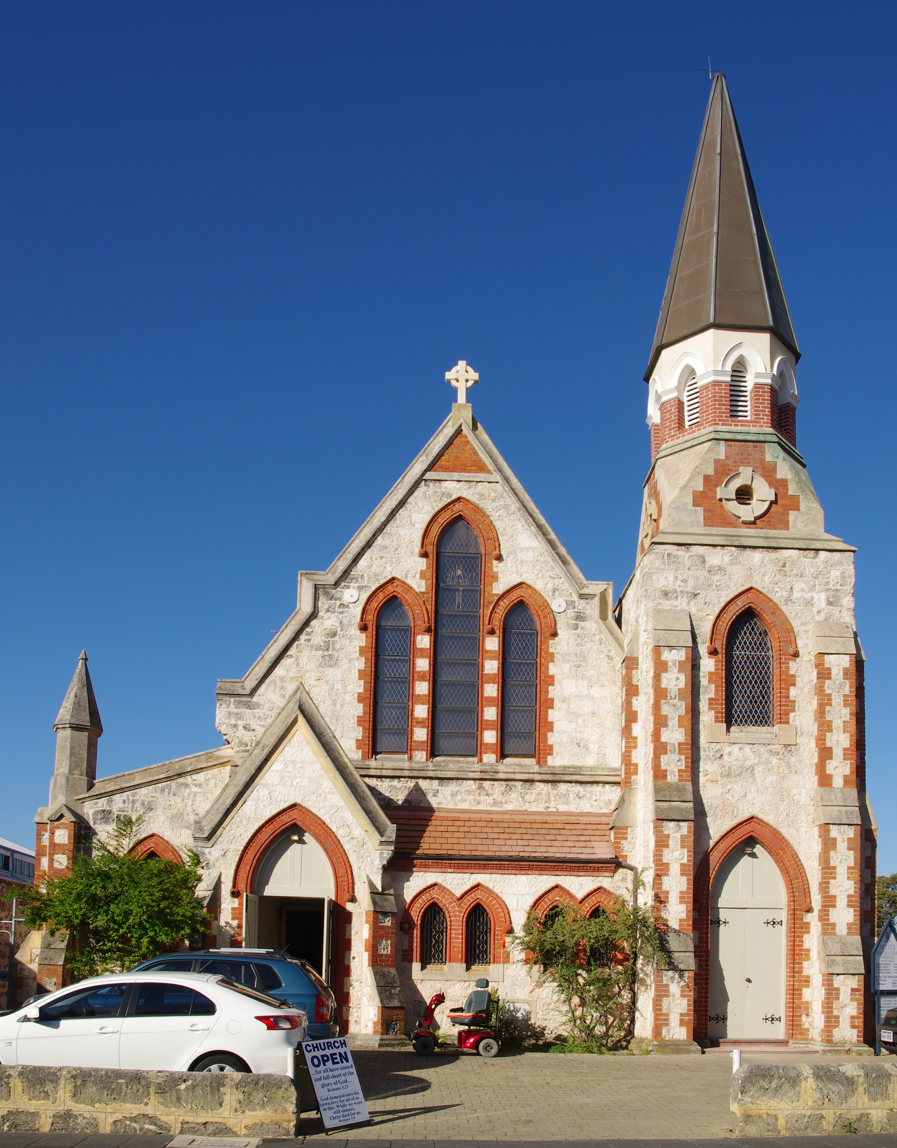 Object location32° 03′ 23.6″ S, 115° 44′ 57.95″ E Scots church